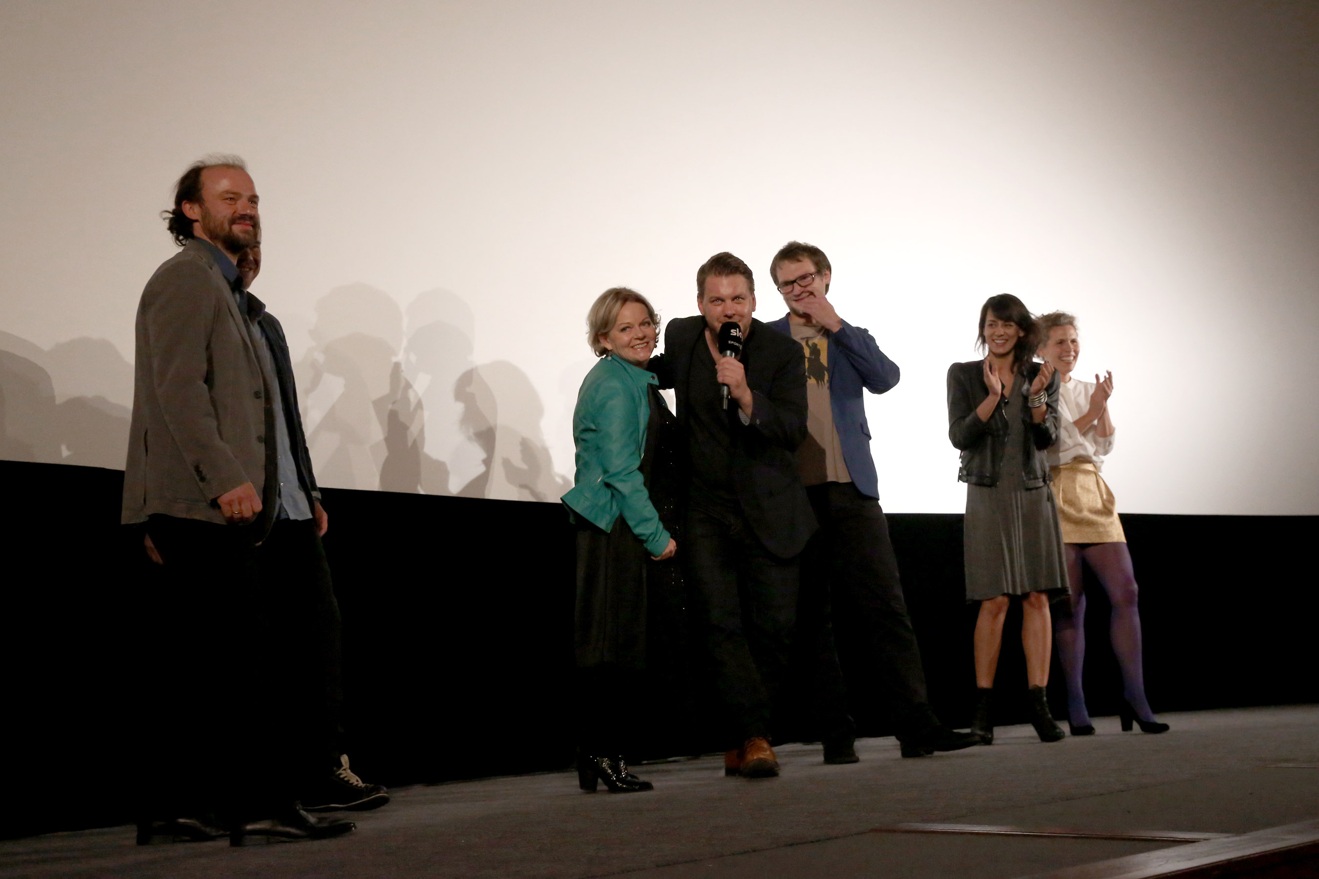 from left: Gerhard Liebmann, Felix Römer (hidden), Brigitte Kren, Marvin Kren, Benjamin Hessler, Edita Malovčić and Hille Beseler, opening of /slash Filmfestival 2013 with the Austrian premiere of Kren's movie Blood Glacier at Gartenbaukino (Vienna, Austria).